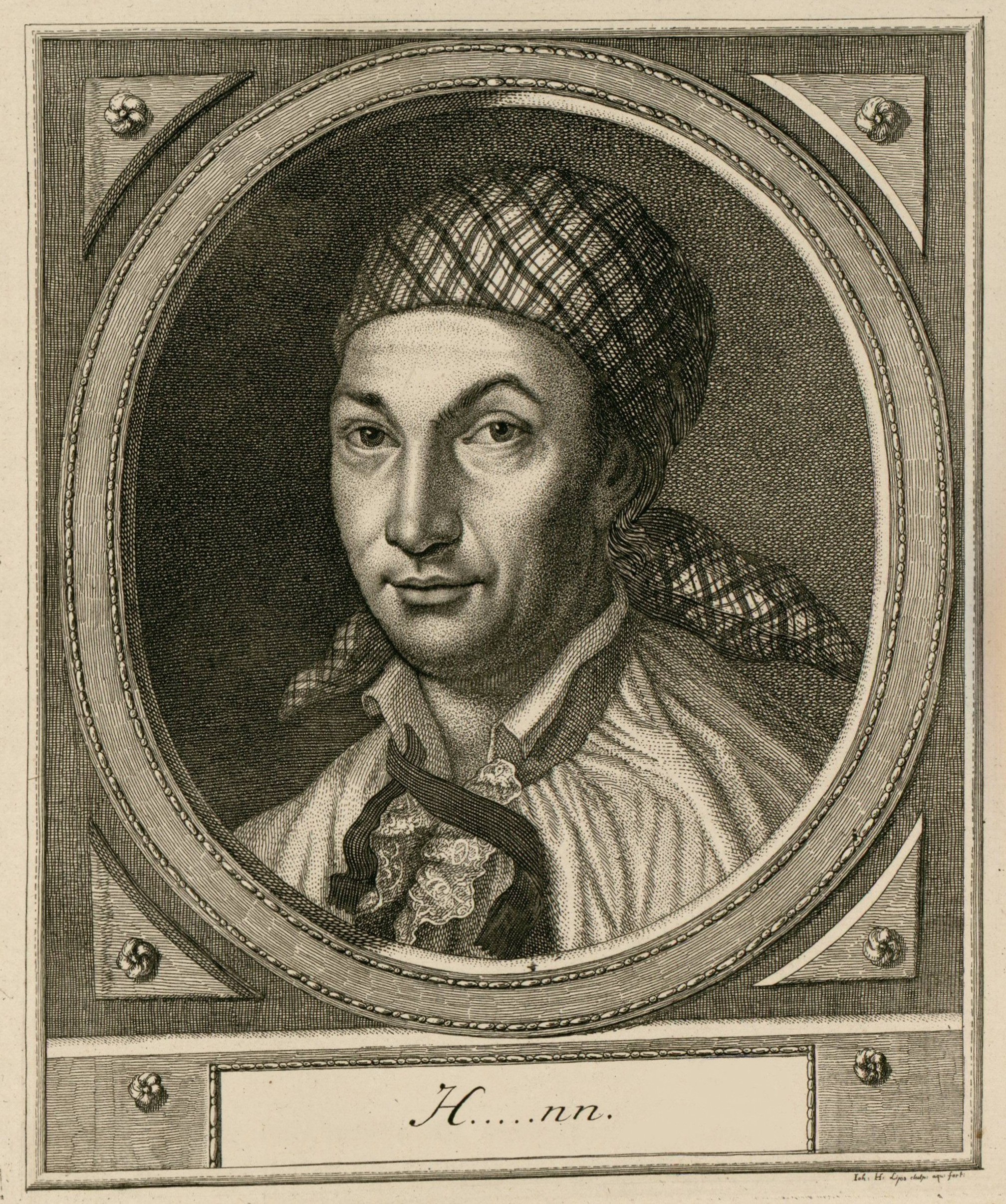 Portrait von Johann Georg Hamann; Stich aus Lavaters Physiognomischen Fragmenten.